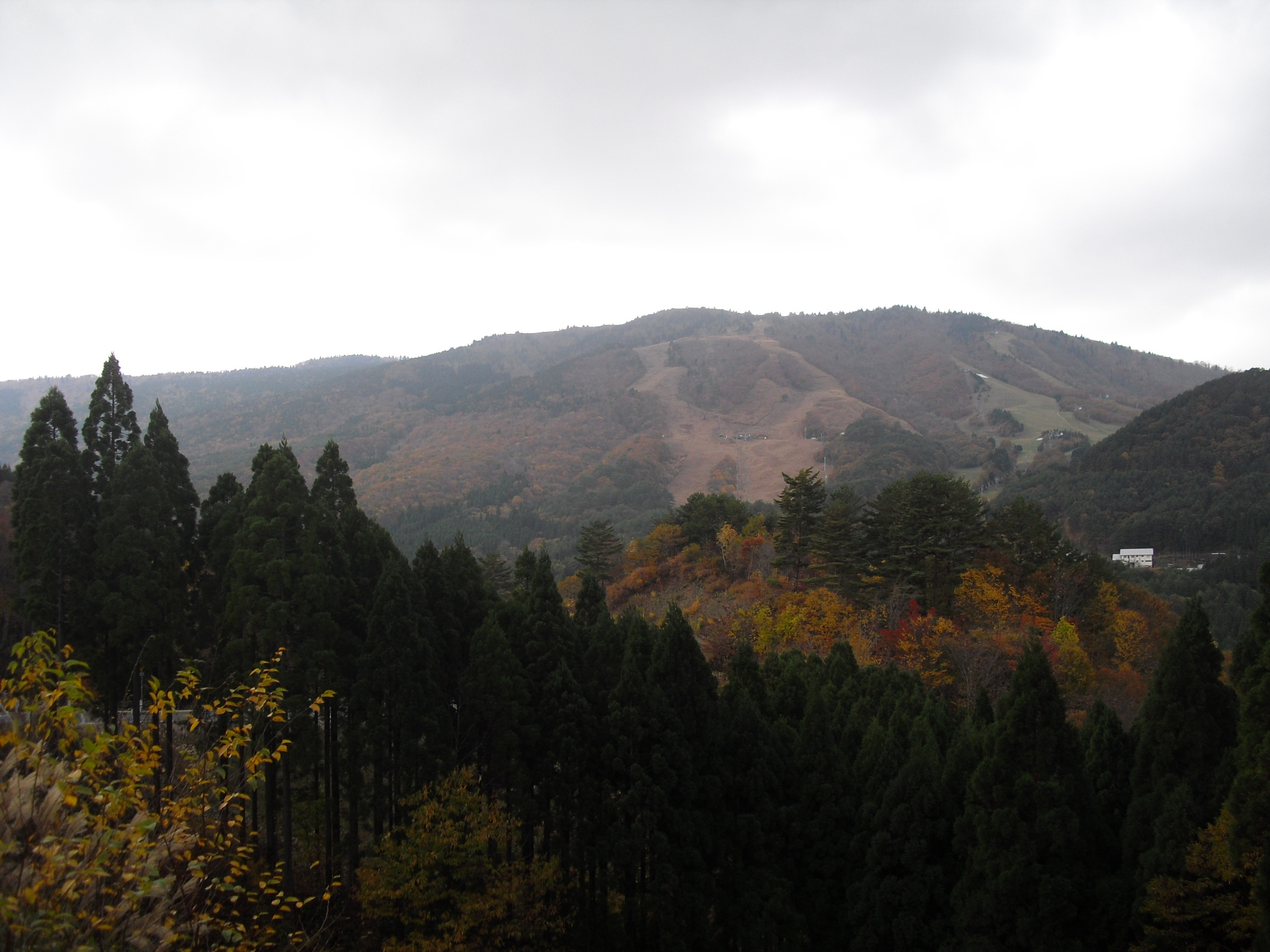 Mount Osorakan (Osorakan-zan) as seen from the east.